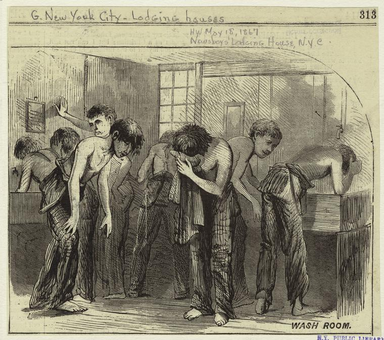 Washroom in the Newsboys Lodging House, New York City, 1867